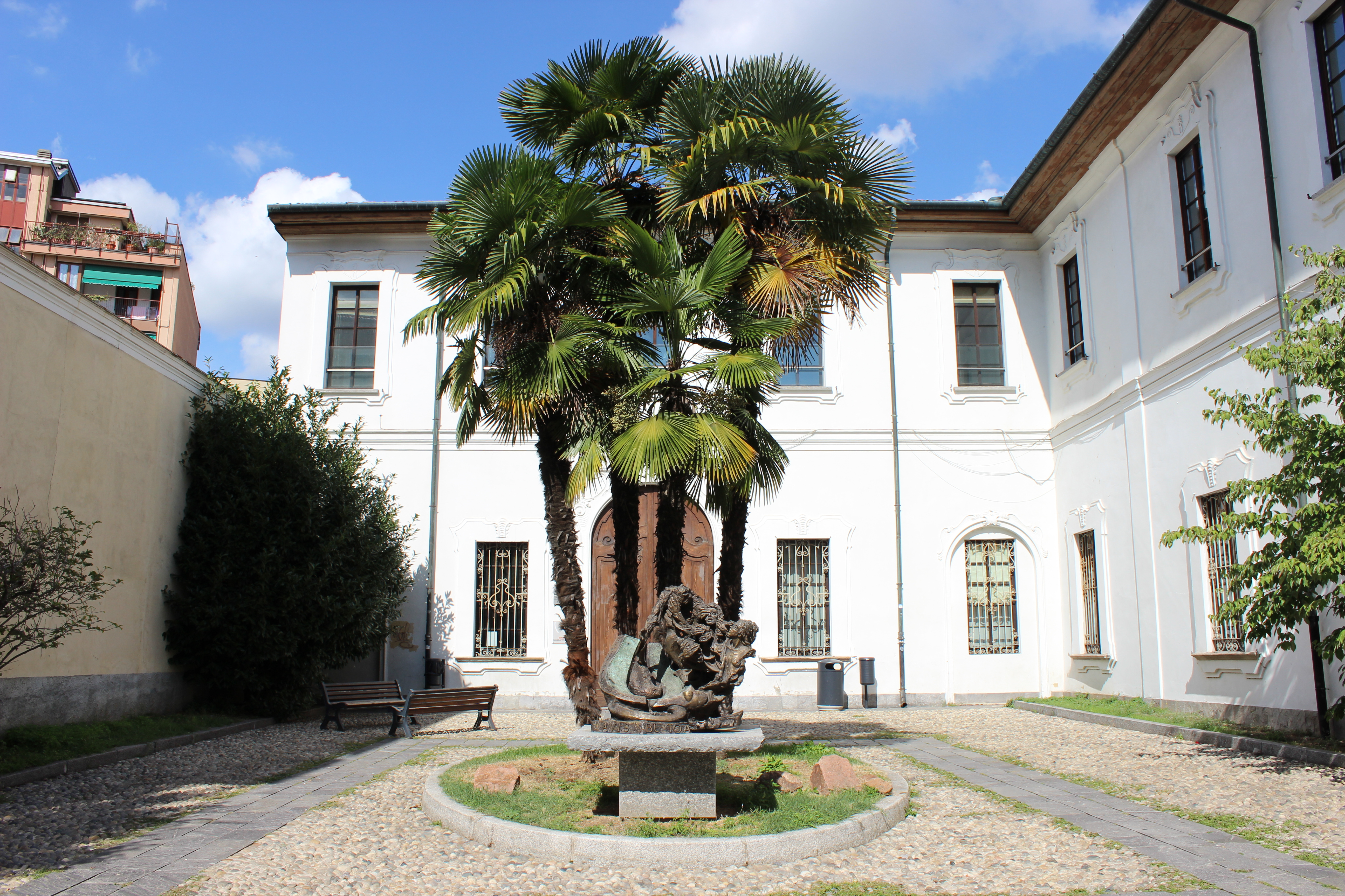 This is a photo of a monument which is part of cultural heritage of Italy.